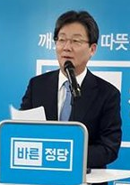 유승민_연설.jpg에서 추출